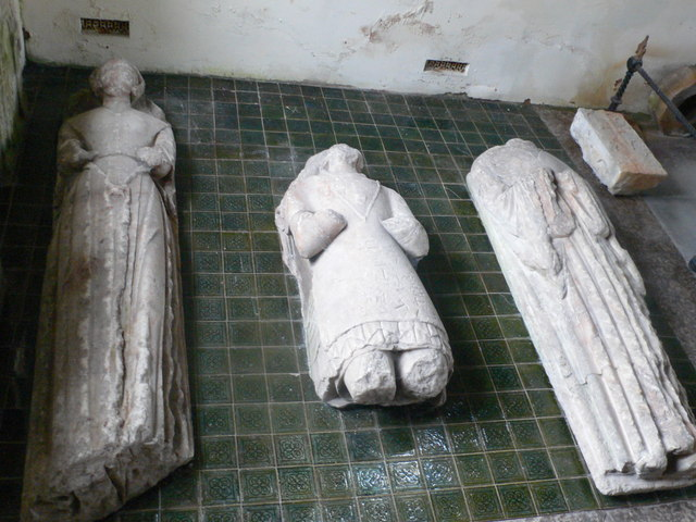 Effigies, Ysbyty Ifan From left to right - Lowri (the wife of Rhys Fawr), Rhys Fawr ap Maredydd and Robert ap Rhys. Rhys Fawr was the standard bearer for Henry VII in the battle of Bosworth and the leader of the North-WEst contingent against Richard III. The effigy dates from about 1483 and shows him with chain and crucifix. His son Robert is in monastic dress - he was chaplain to Cardinal Wolsey.